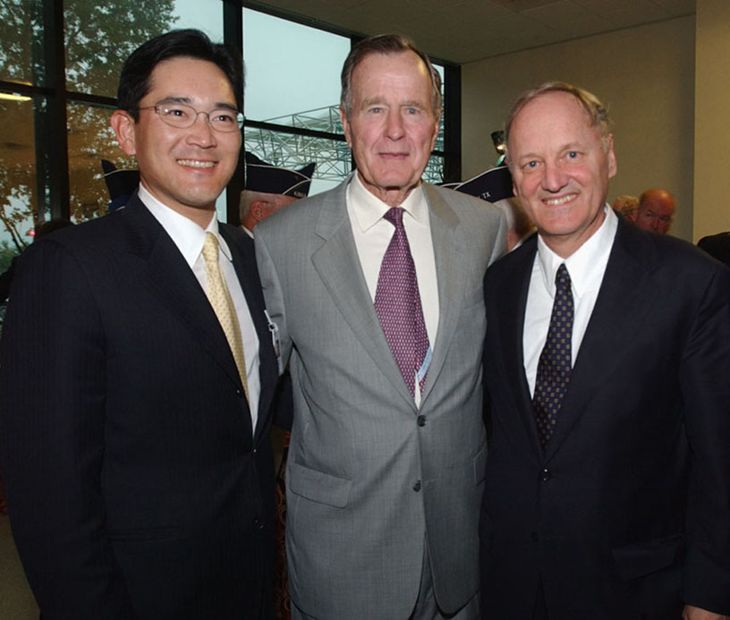 Jay-Yong Lee, George H. W. Bush, John J. Donovan.